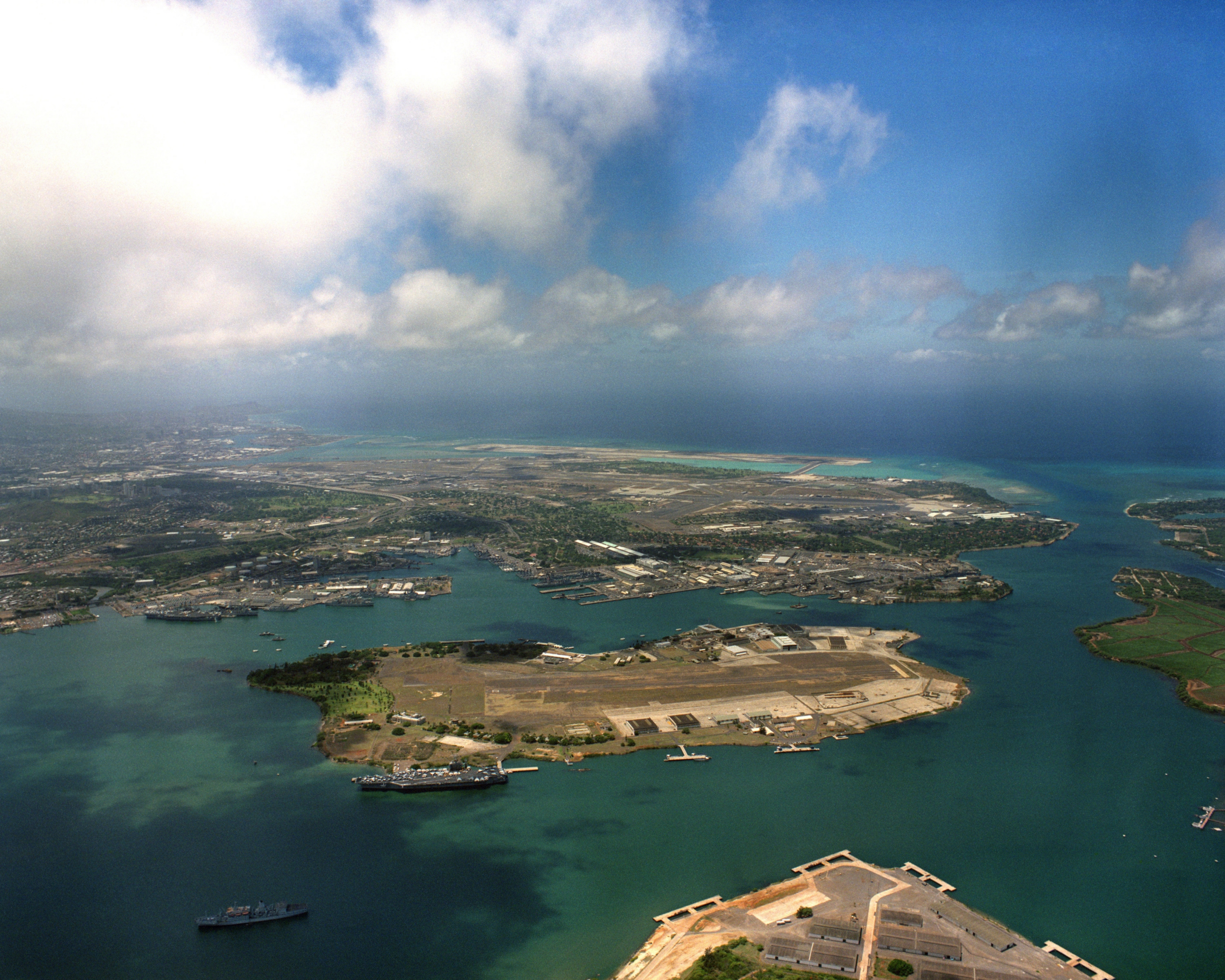 Aerial view of Ford Island, Pearl Harbor, Hawaii (USA), showing the gathering of ships on various nations for "Operation RIMPAC '86". The Aircraft Carrier USS CARL VINSON CVN-70 is moored at Ford Island, another Aircraft Carrier, USS RANGER CV-61 is tied at the Naval Supply Center.